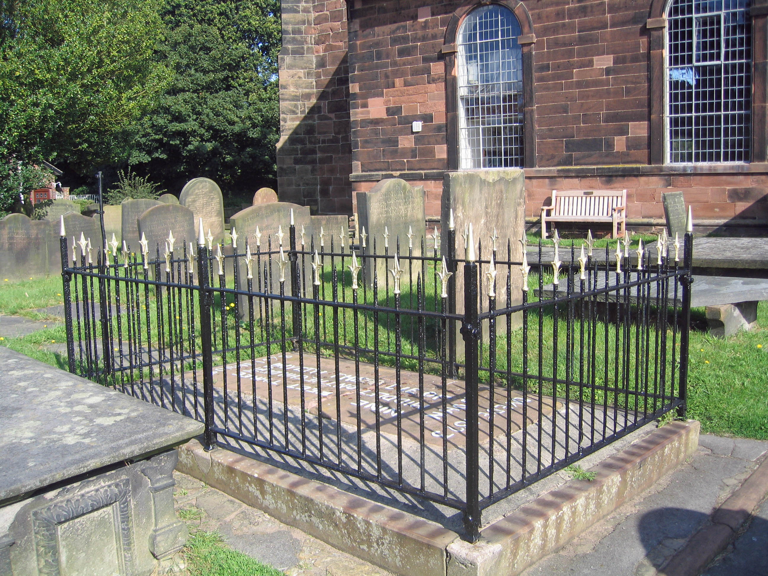 Photograph of the grave of John Middleton, the Childe of Hale, in the churchyard of St Mary's, Hale, Halton, Cheshire, England